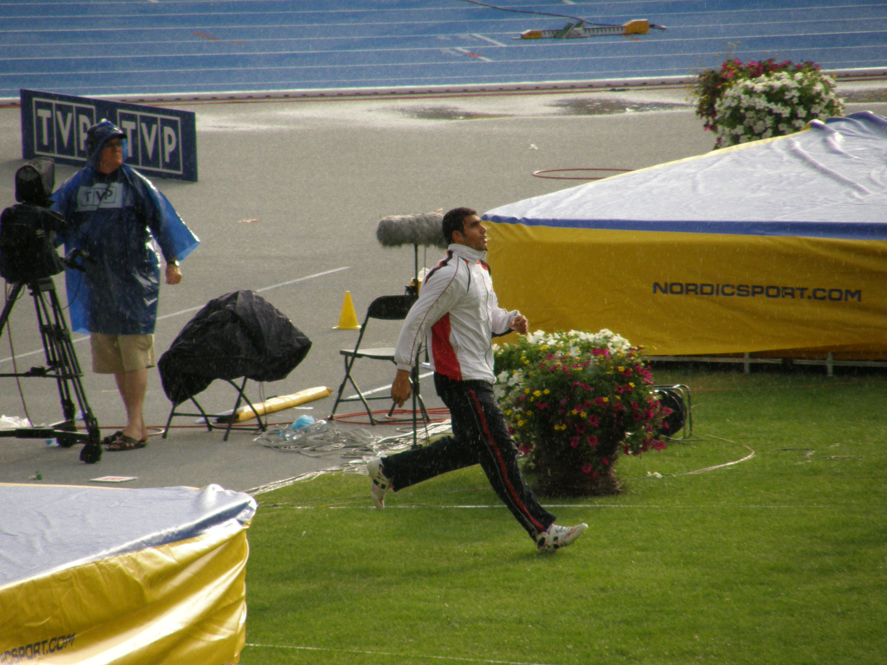 Ihab Al Sayed Abdelrahman in Bydgoszcz - World Junior Championships in Athletics 2008